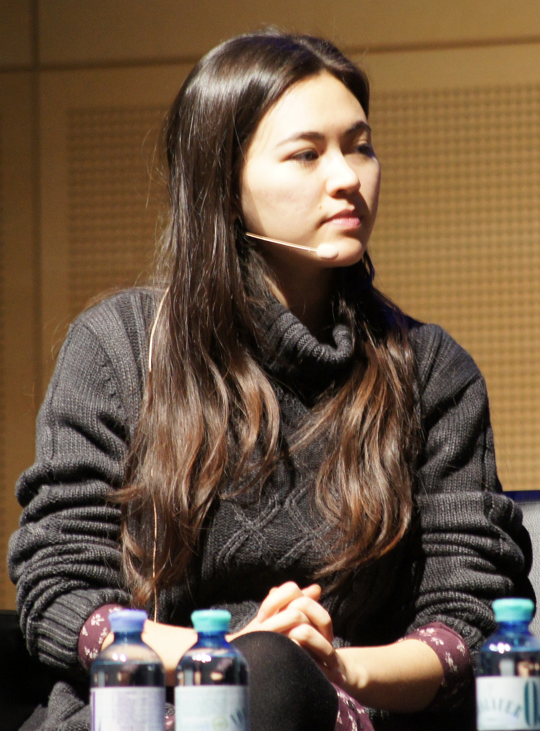 VIECC Vienna Comic Con 2015 - Main Stage - Jessica Henwick